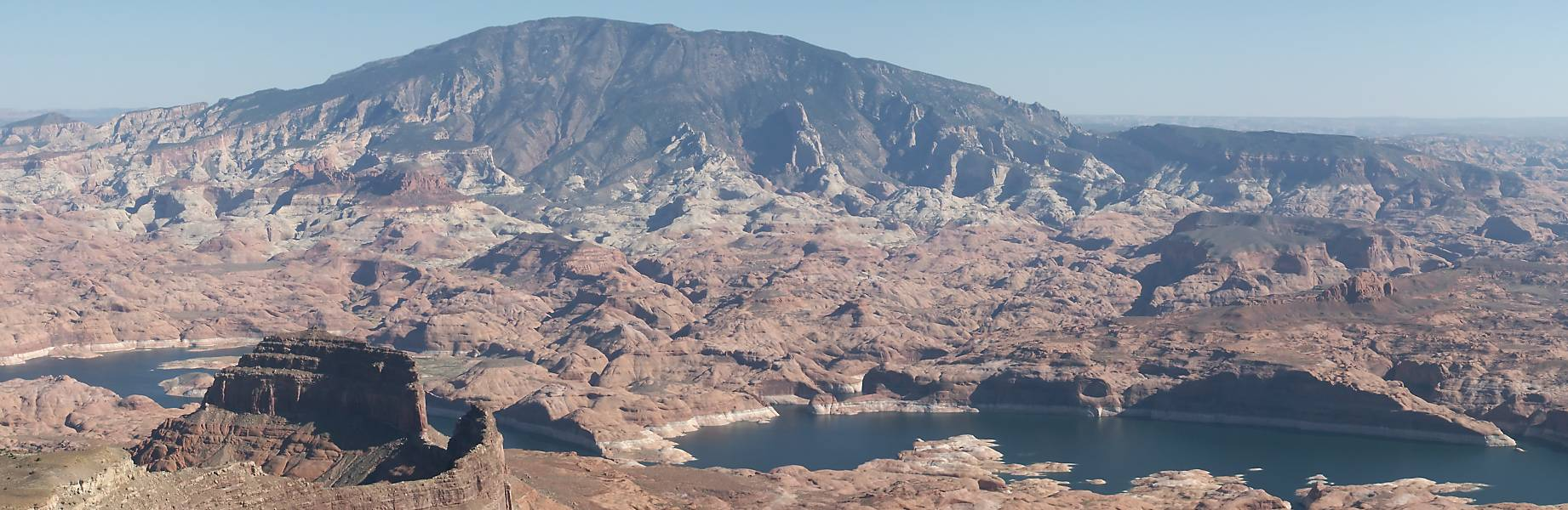 Panoramic image of Navajo Mountain, looking southeast from Navajo Point on the Kaiparowits Plateau.